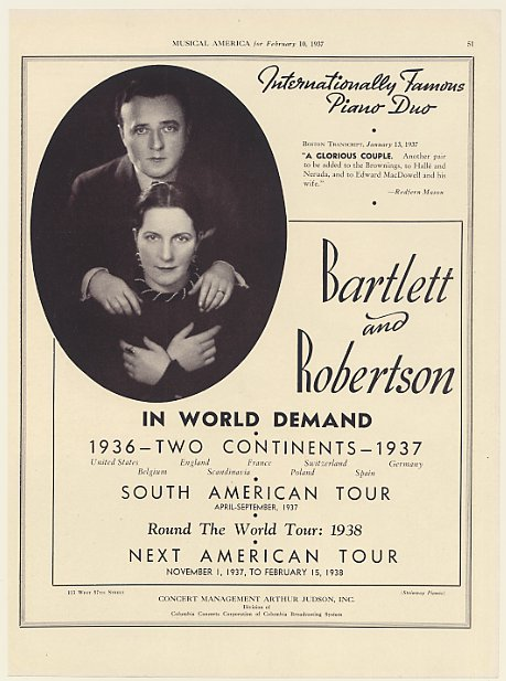 Ad from the music publication Musical America with details about Ethel Bartlett and Rae Robinson's tours for 1937 and 1938.